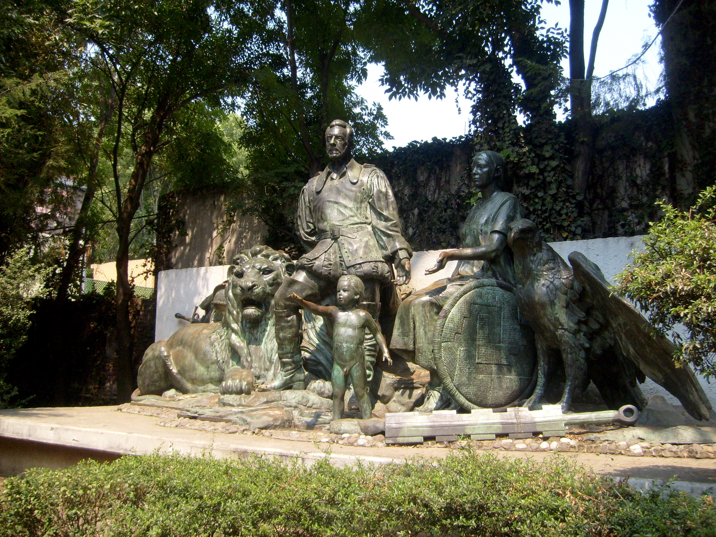 Monumento al Mestizaje" by Julián Martínez y M. Maldonado (1982). Represents Hernan Cortes, La Malinche (Malintzin, or Malinalli, or Doña Marina) and their son, Martín Cortes, comisioned by President Lopez Portillo. The Mexican actor of Spanish origin Germán Robles posed as Hernán Cortés. Originally it was put in the Center of Coyoacan, near the place where was Cortes country house, but it was moved to a little known park due to public protests. Currently the figure of the children has disappeared, probably vandalism. Currently in the Jardín Xicoténcatl, Barrio de San Diego Churubusco.